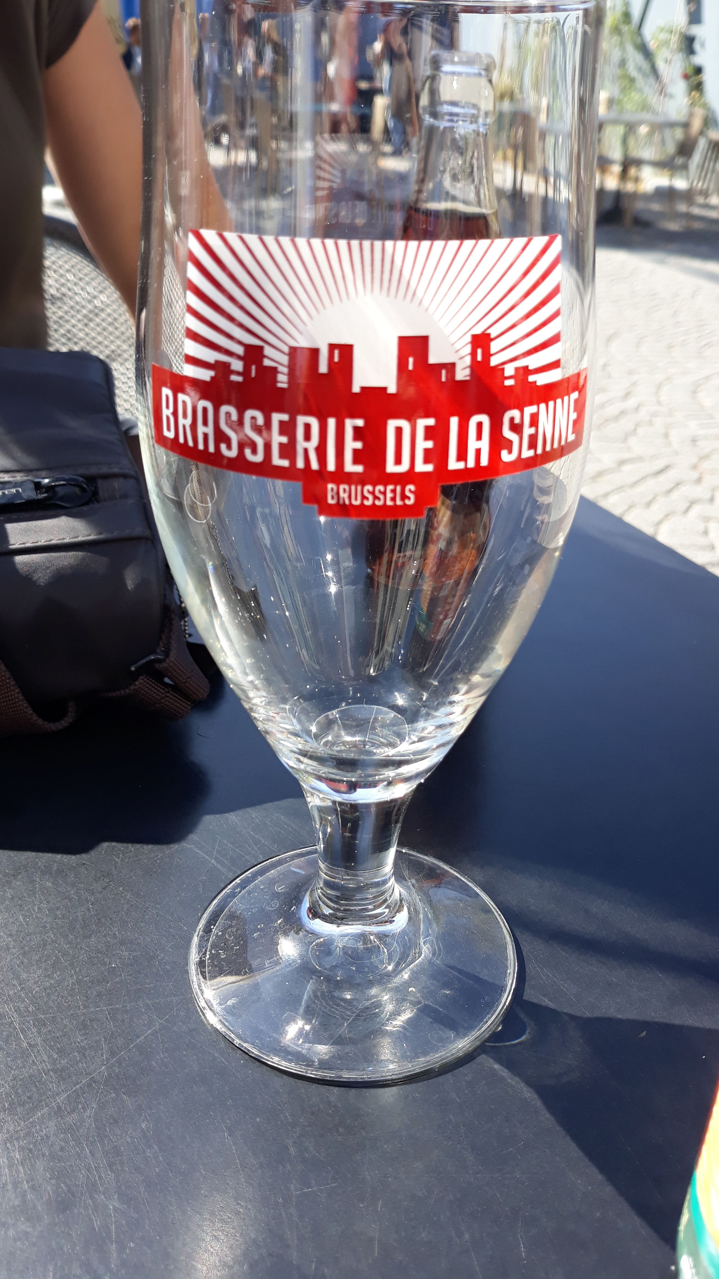 Beer belgium